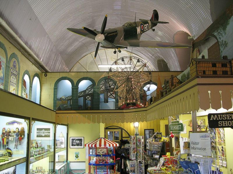 The entrance foyer of Brighton Toy and Model Museum, Brighton UK. The foyer holds the Museum's shop, commissions sales cabinets, the Brighton Visitor Information Point, and a number of exhibits (including the "Glamour of Brighton" display). The Foyer shares Arch One with the Museum administration space and workshops. Entrance to the Foyer area is free, admission to the main museum space in Arches Two through Four is by ticket.